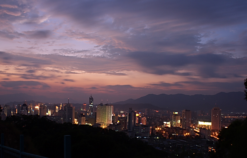 View from Mt.Jin ji